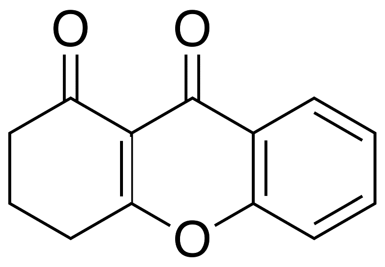 I have drawn this image to be placed in the 4-hydroxyphenylpyruvate dioxygenase inhibitor article.